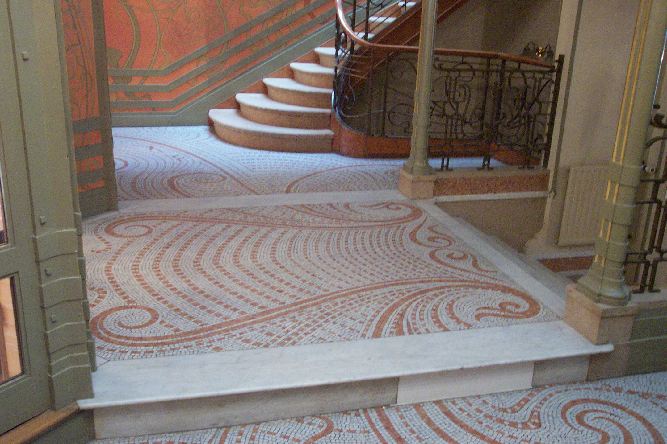 Ground floor of Tassel House, Brussels